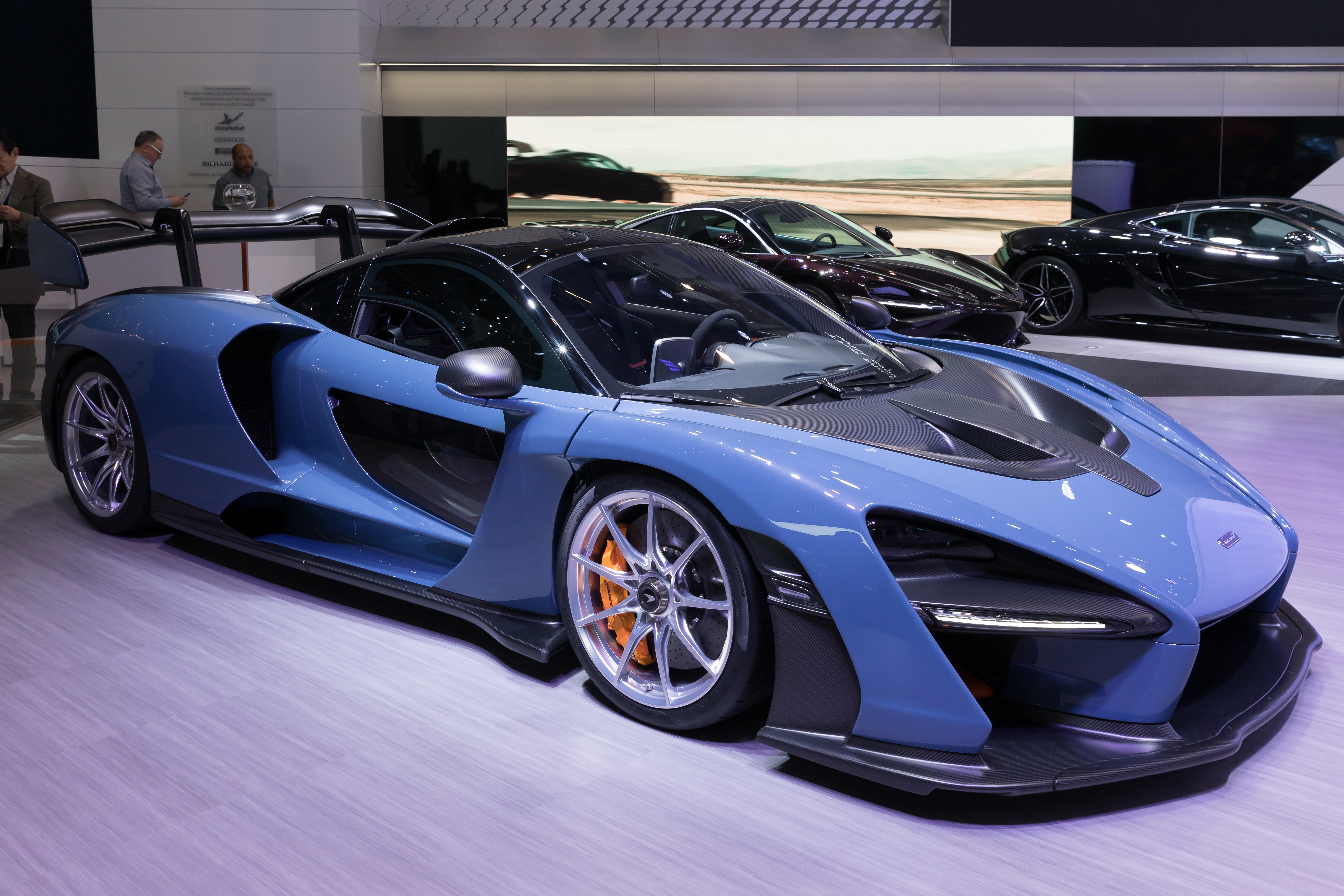 McLaren Senna at Geneva International Motor Show 2018